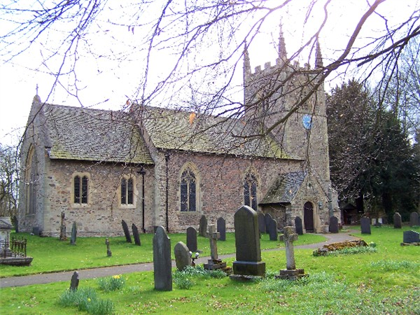 St Leonards church,Swithland taken by kev747